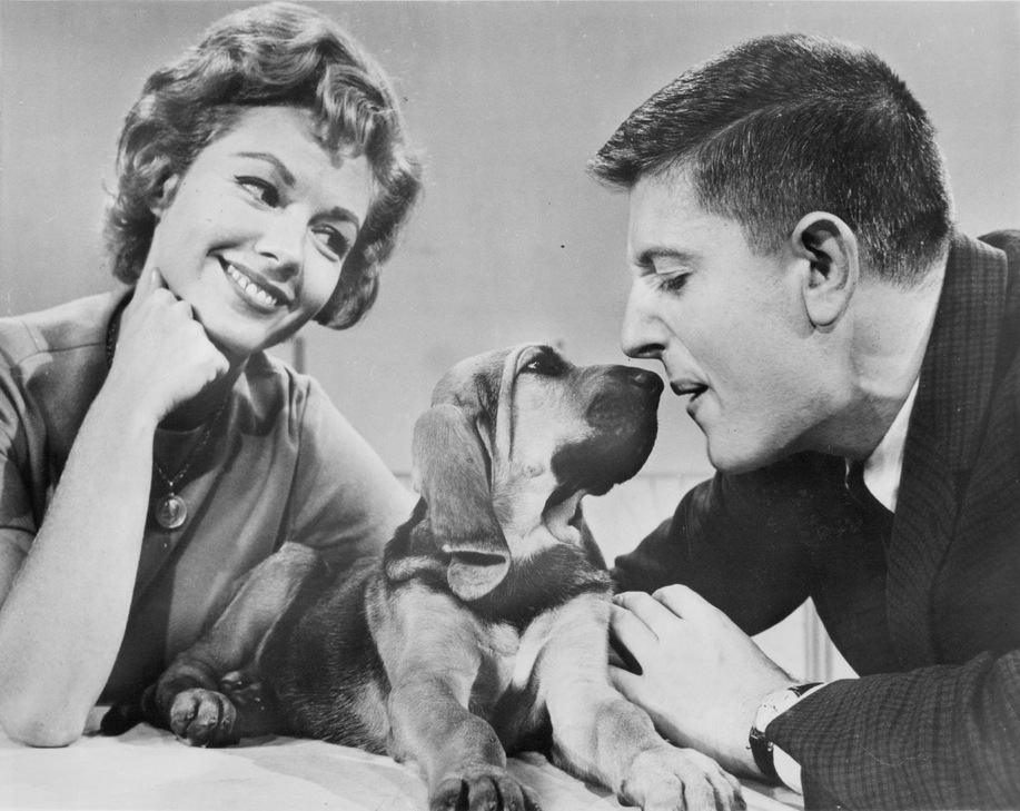 Publicity photo of American television hosts, Virginia Gibson and Frank Buxton with baby bloodhound, Corpuscle promoting the ABC television series Discovery '62, 1962.